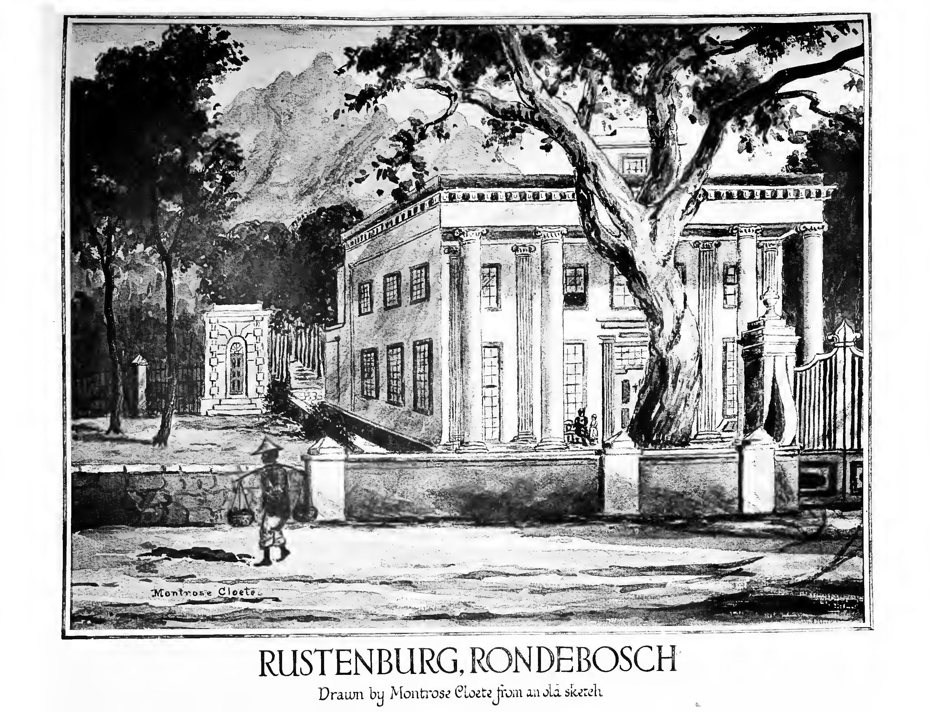 Rustenburg House in Rondebosch, Cape Town. Now home to a girls' school.